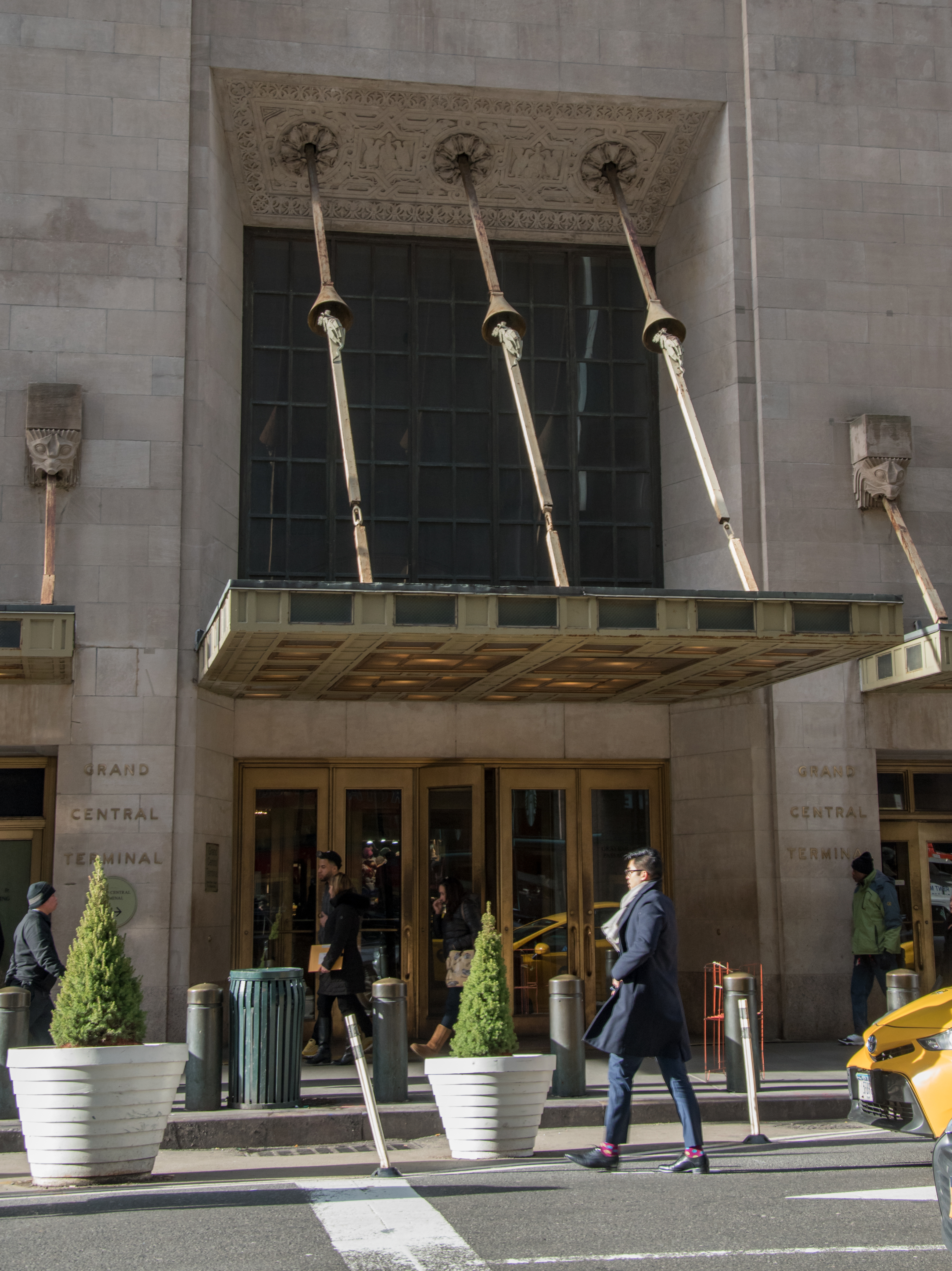 Graybar Building entrance to the Graybar Passage of New York City's Grand Central Terminal in 2019. taken as part of a scheduled photoshoot with three other Wikipedians on January 7, 2019.